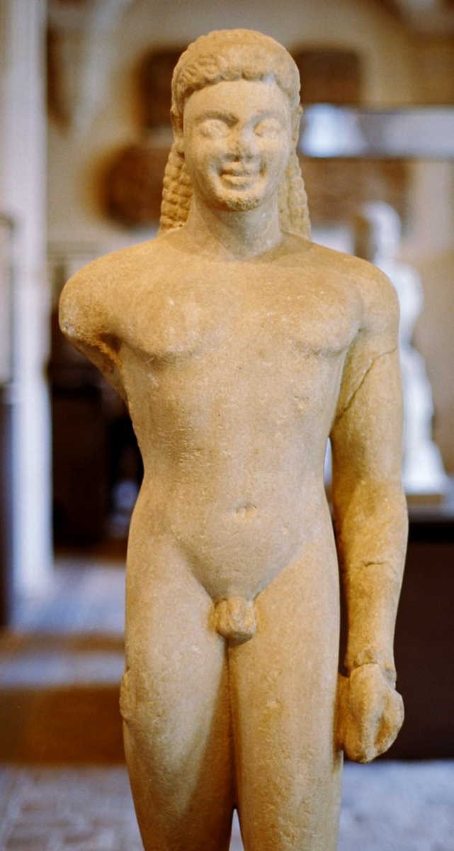 Kouros from the Asclepieion of Paros. Parian marble, cca 540 BC. Louvre, Paris.